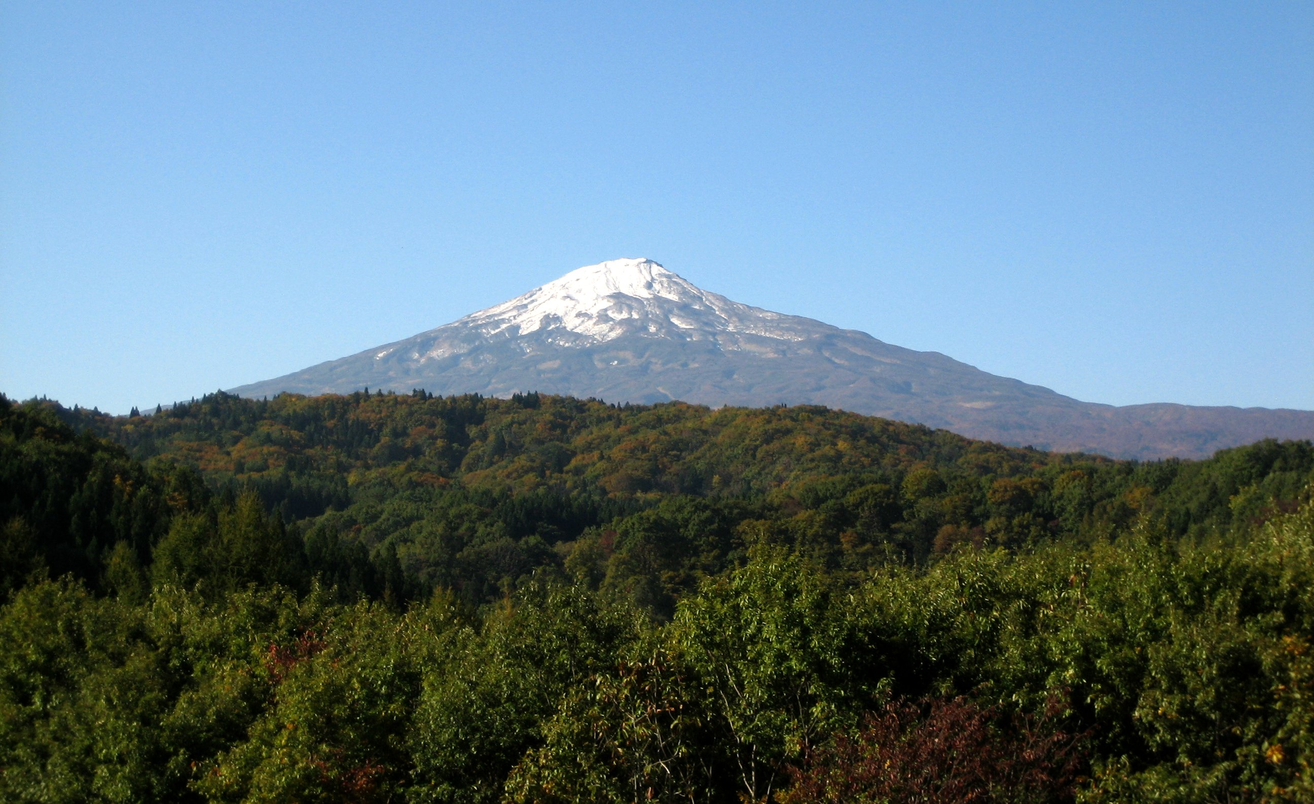 Mt. Chokai as seen from Kawauchi, Chokai Town, Yurihonjo, Akita, Japan.